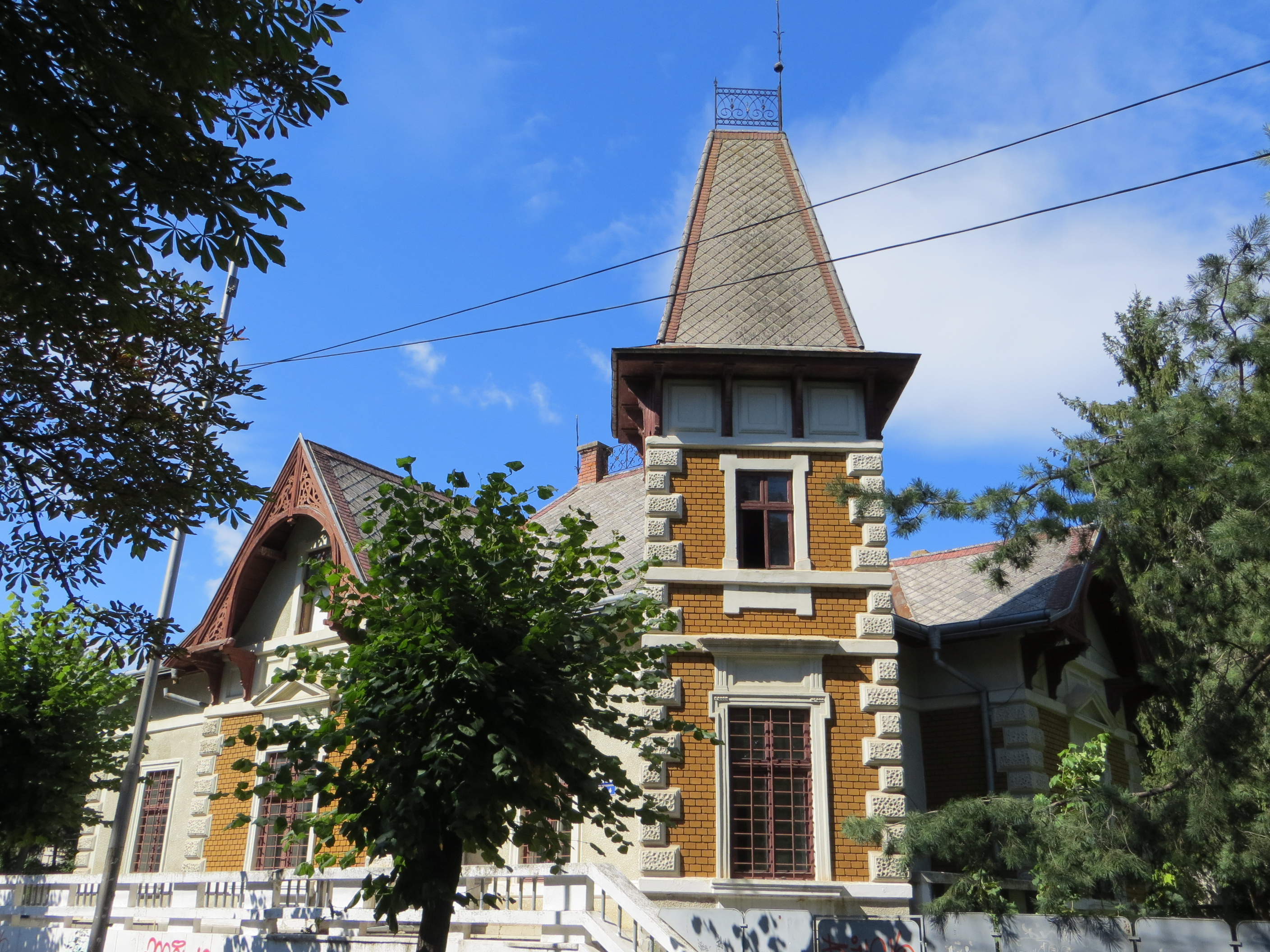 House in Suceava (Trandafirilor Street, 4).